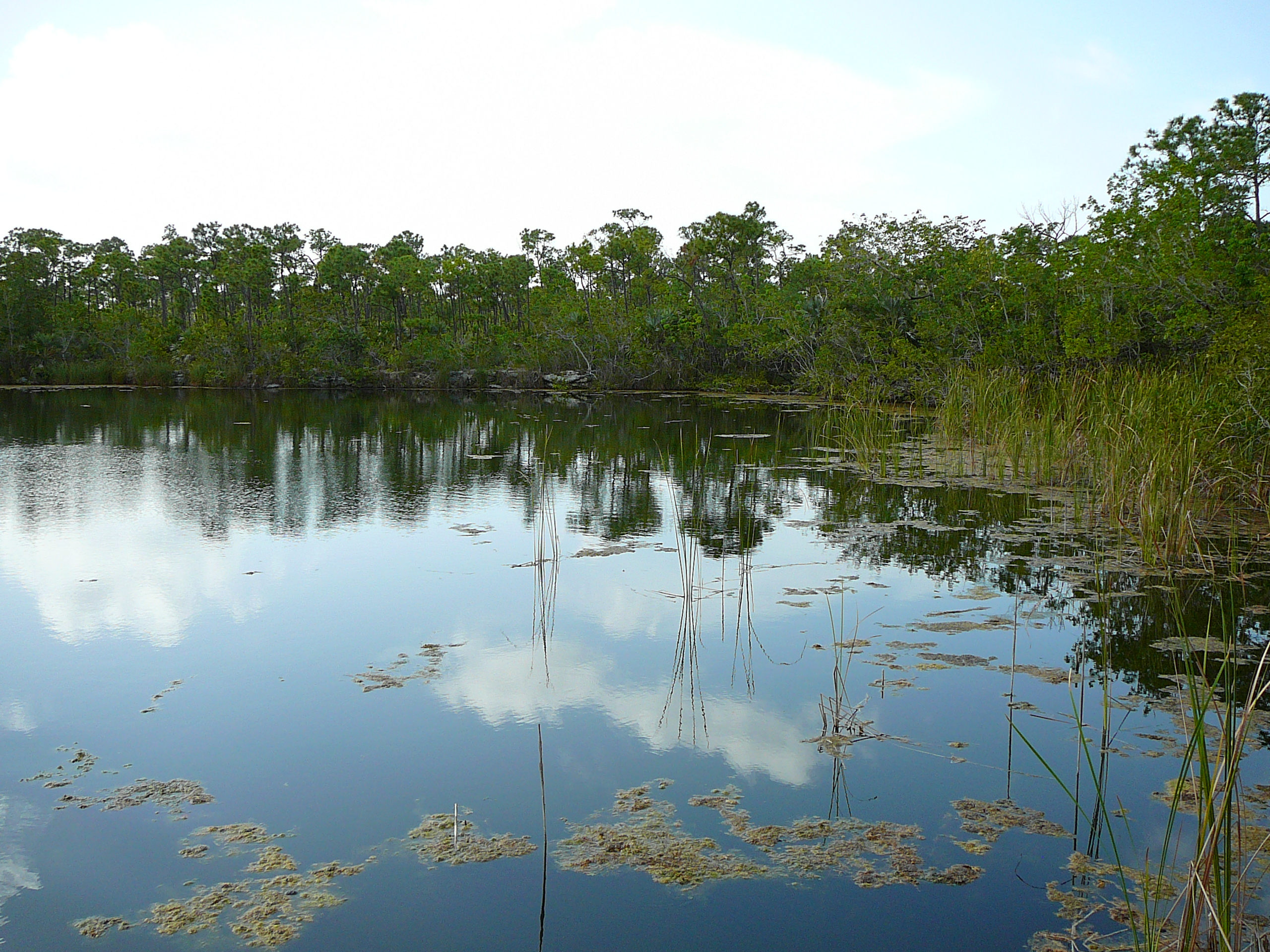 Digital photo taken by Marc Averette. The Blue Hole (Big Pine Key). An abandoned rock quarry on Big Pine Key in the Florida Keys